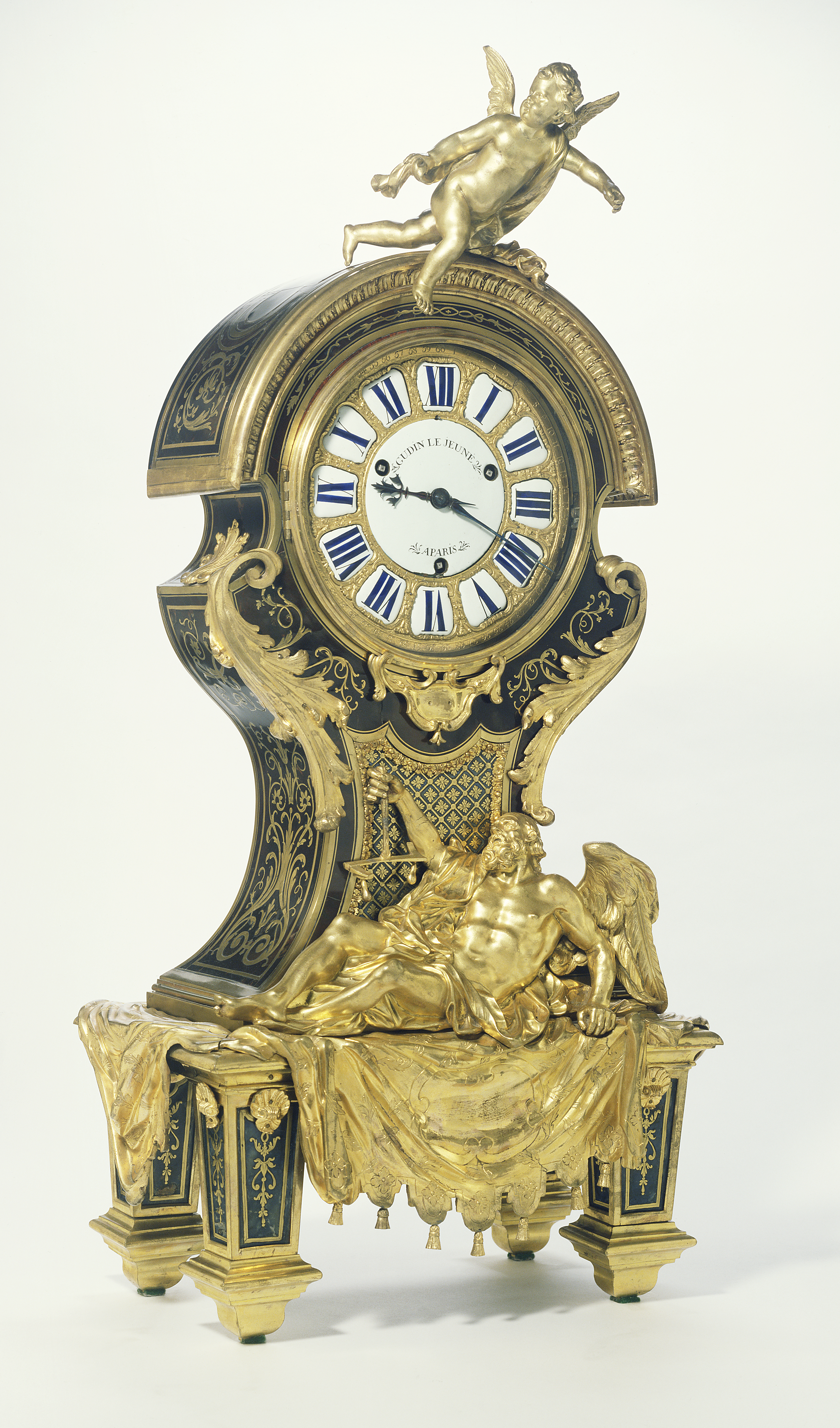 Movement maker Paul Gudin (French, active about 1729 - 1755), Case attributed to André-Charles Boulle (French, 1642 - 1732, master before 1666) Mantel Clock (Pendule), 1715 to 1725, Oak veneered with tortoise shell, blue-painted horn, brass, and ebony; enameled metal; gilt bronze mounts 101 × 46 × 28.6 cm (39 3/4 × 18 1/8 × 11 1/4 in.) The J. Paul Getty Museum, Los Angeles